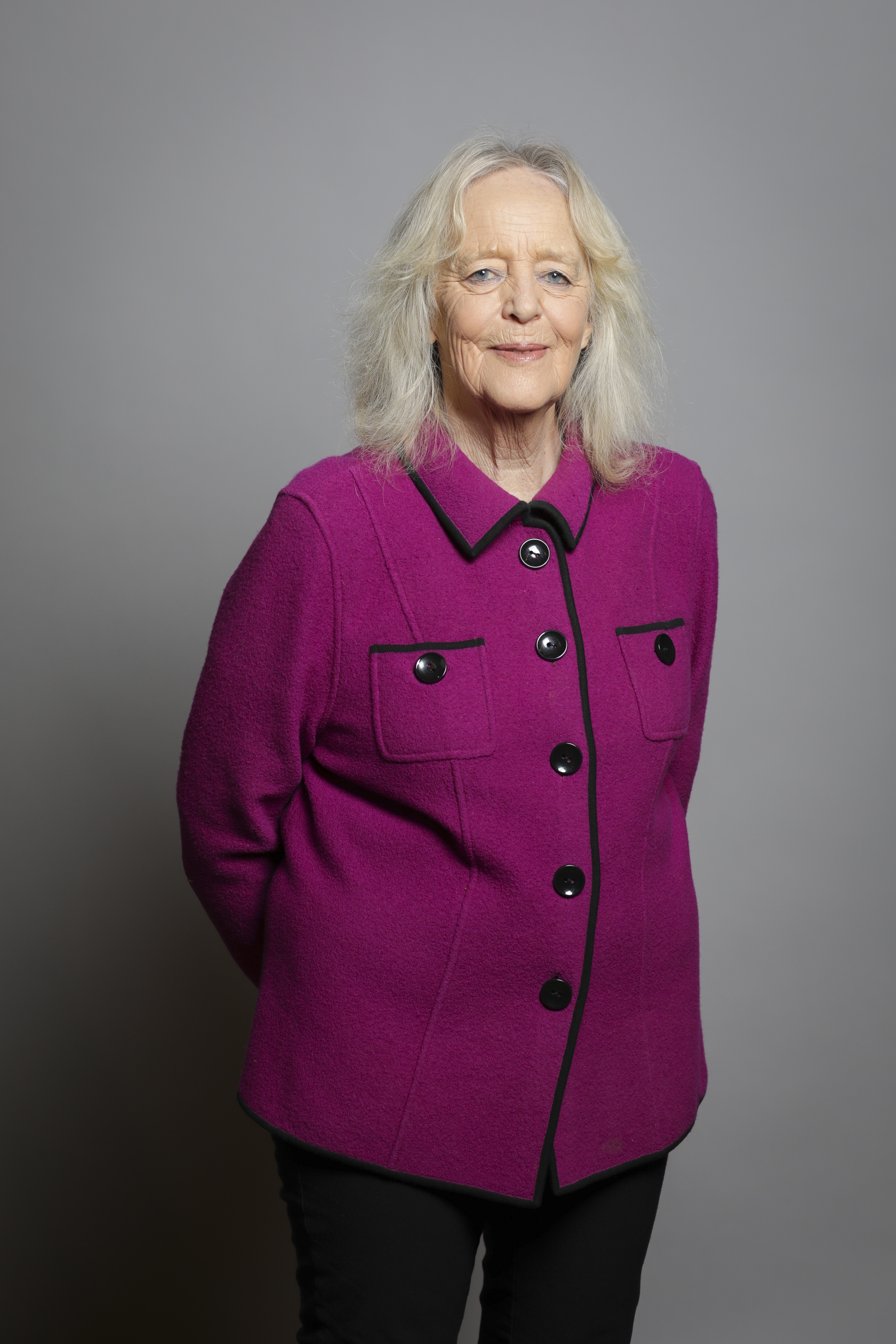 Official portrait of Baroness Mallalieu Full sized portrait of Baroness Mallalieu